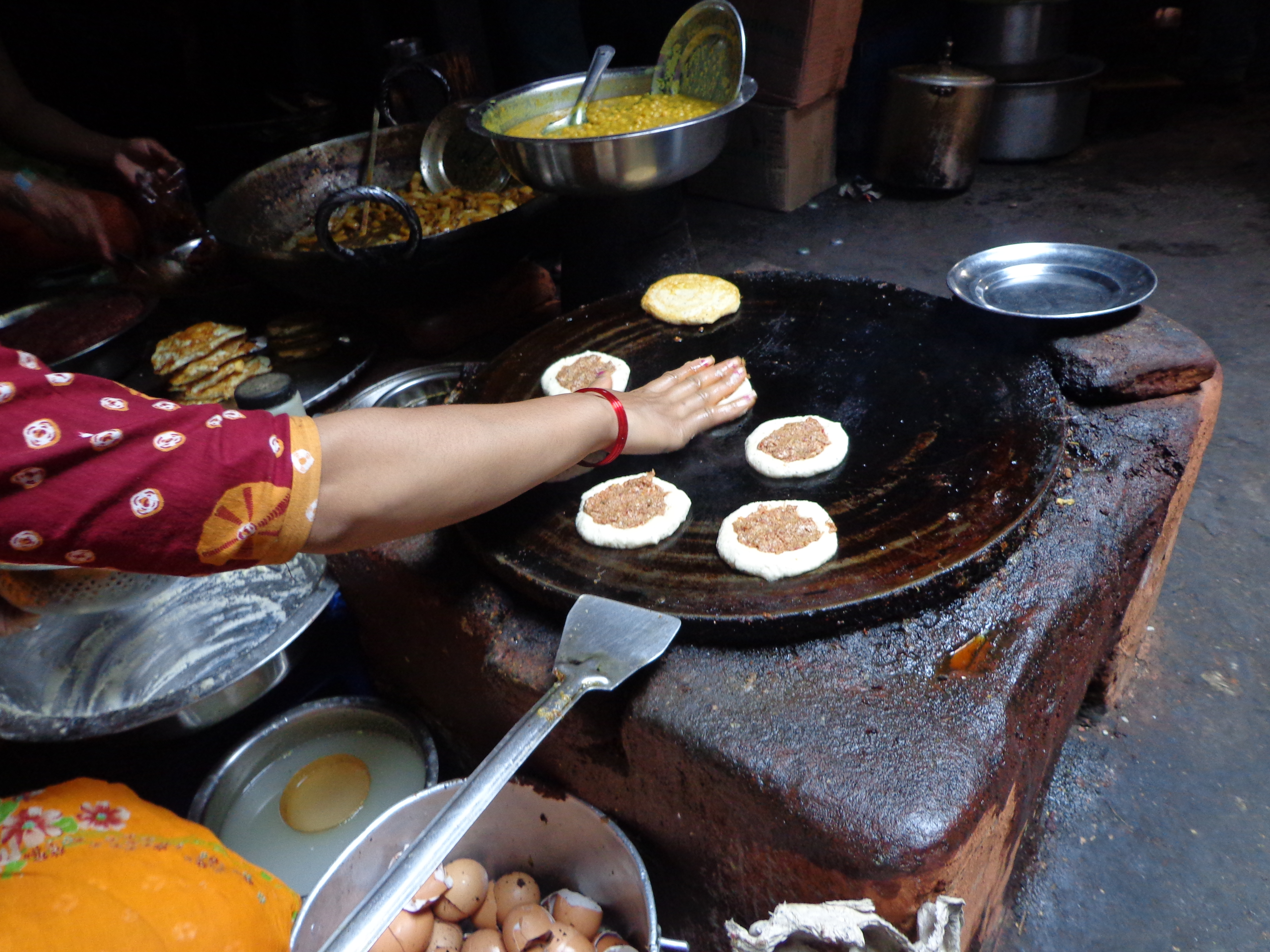 Bara Making